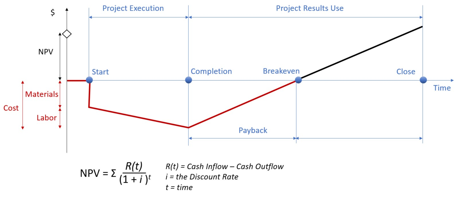 The simplified Cash Flow model in Project Portfolio Management Simulation SimulTrain(R) shows different stages of the project life: how the material and labor costs are spent, when the breakeven happens, what is the payback period.